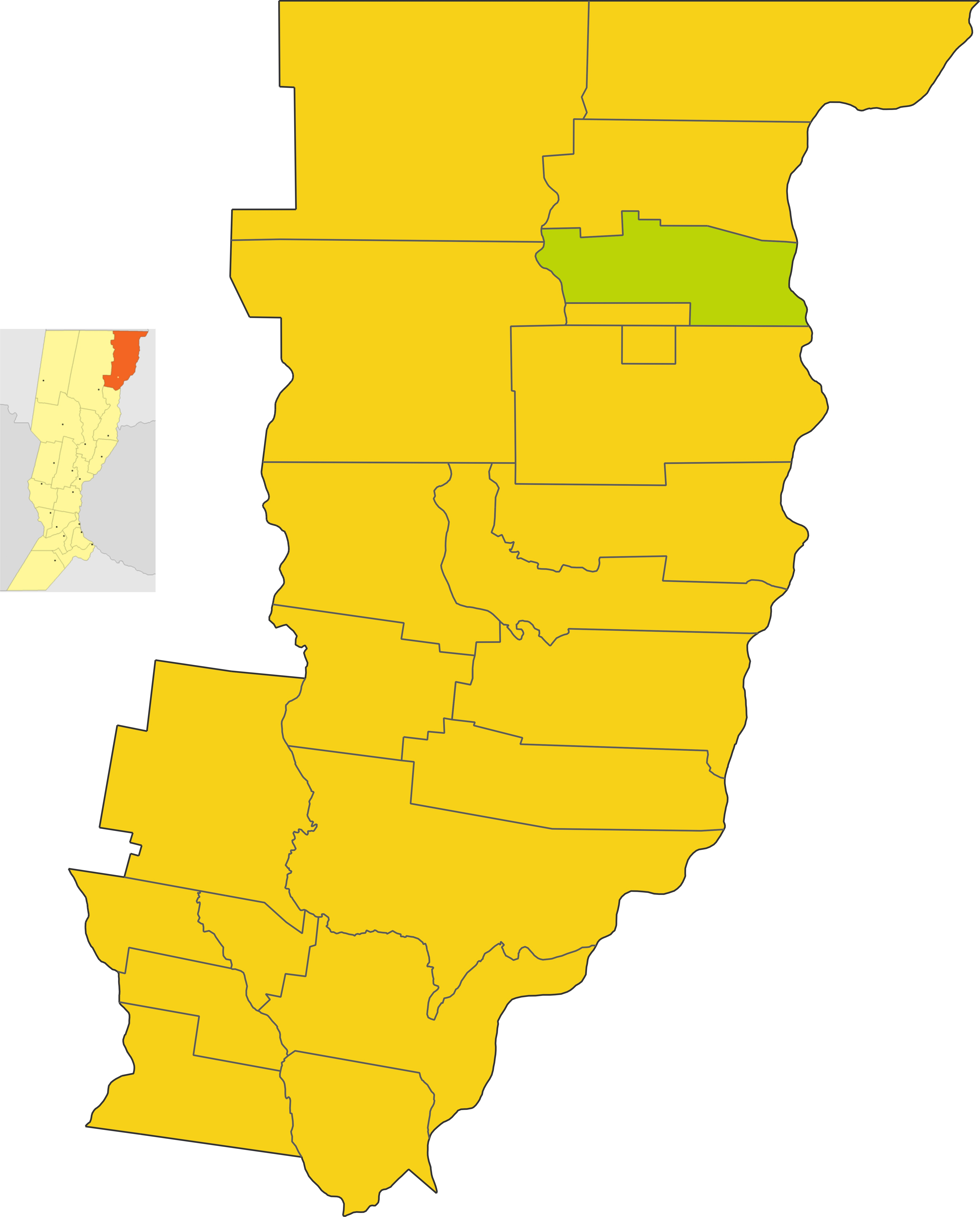 Map of the municipio de Las Toscas in General Obligado department, Santa Fe province, Argentina